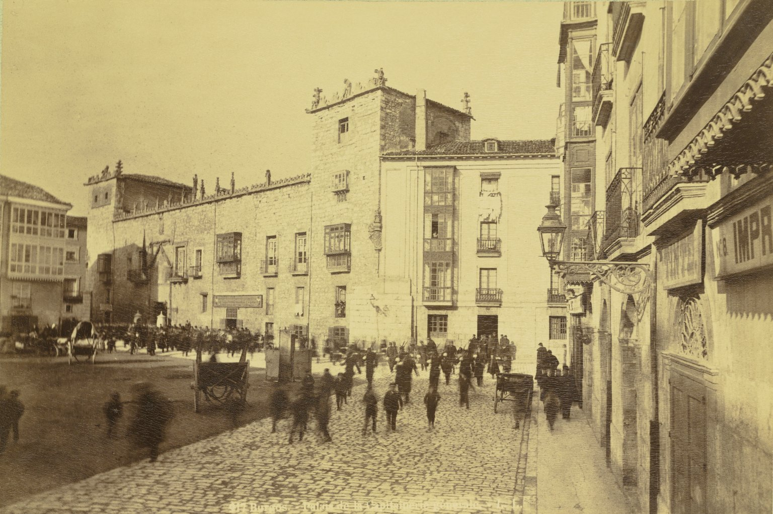 Collection: A. D. White Architectural Photographs, Cornell University Library Accession Number: 15/5/3090.01618a Title: Burgos. La Casa del Cordón (Palace of the Captain General) Photographer: M. and Lévy, J. Léon (French photographic studio, active 1860-1880) Building Date: 1482-ca. 1490 Photograph date: ca. 1880-ca. 1901 Location: Europe: Spain; Burgos Materials: albumen print Image: 4.9213 x 7.2835 in.; 12.5 x 18.5 cm Provenance: Gift of Charles Mason Remey Persistent URI: There are no known copyright restrictions on this image. The digital file is owned by the Cornell University Library which is making it freely available with the request that, when possible, the Library be credited as its source. We had some help with the geocoding from Web Services by Yahoo!